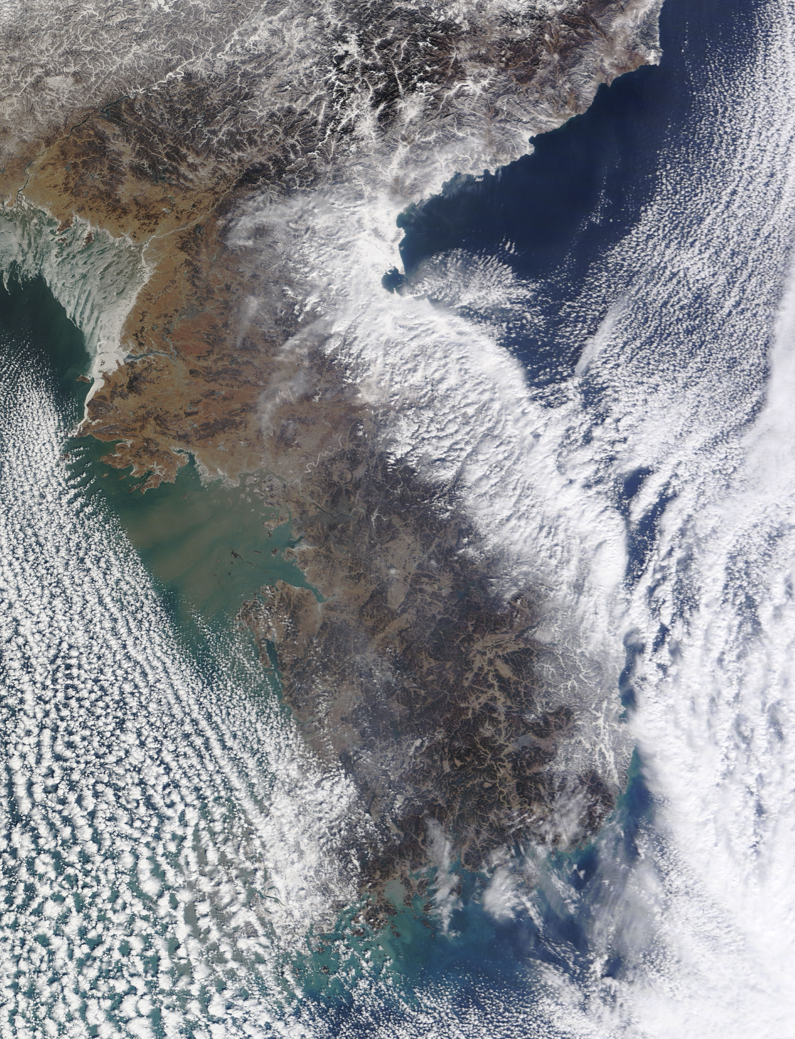 FAS_Korea Subset - Terra 250m True Color image for 2011/043 (02/12/11)